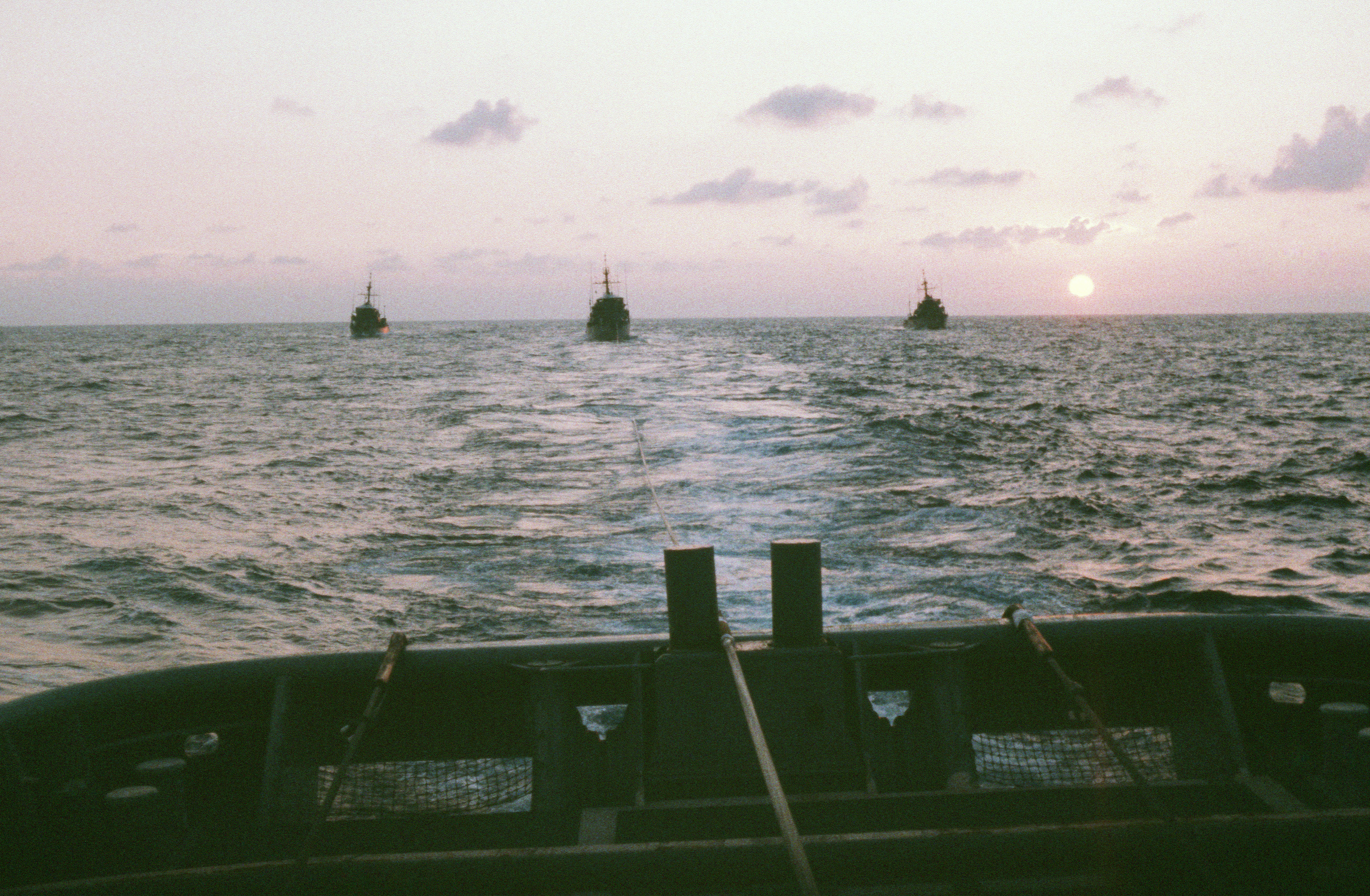 The salvage ship USS GRAPPLE (ARS 53) tows the ocean minesweepers USS INFLICT (MSO 456), USS FEARLESS (MSO 442) and USS ILLUSIVE (MSO 448) to the Persian Gulf to support US Navy escort operations.